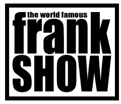 The World Famous Frank Show, logo